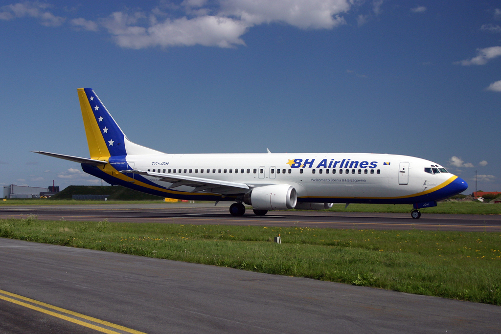 B734 BH Airlines